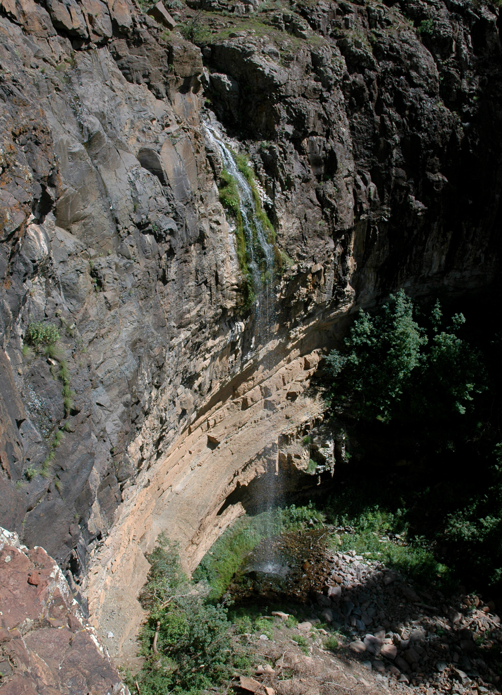 Workman Creek Falls as seen from forest road 487 near Aztec Peak in the Tonto National Forest.